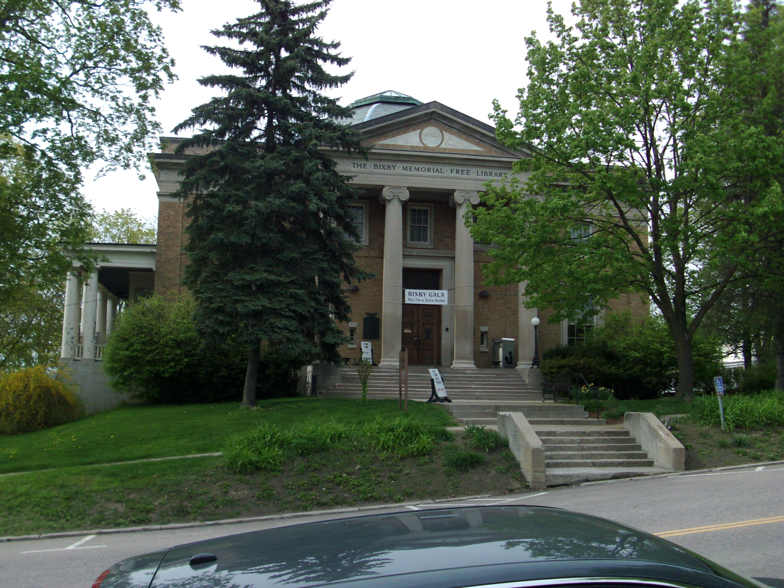 The Bixby Memorial Free Library on Main Street (VT Route 22A) in Vergennes.